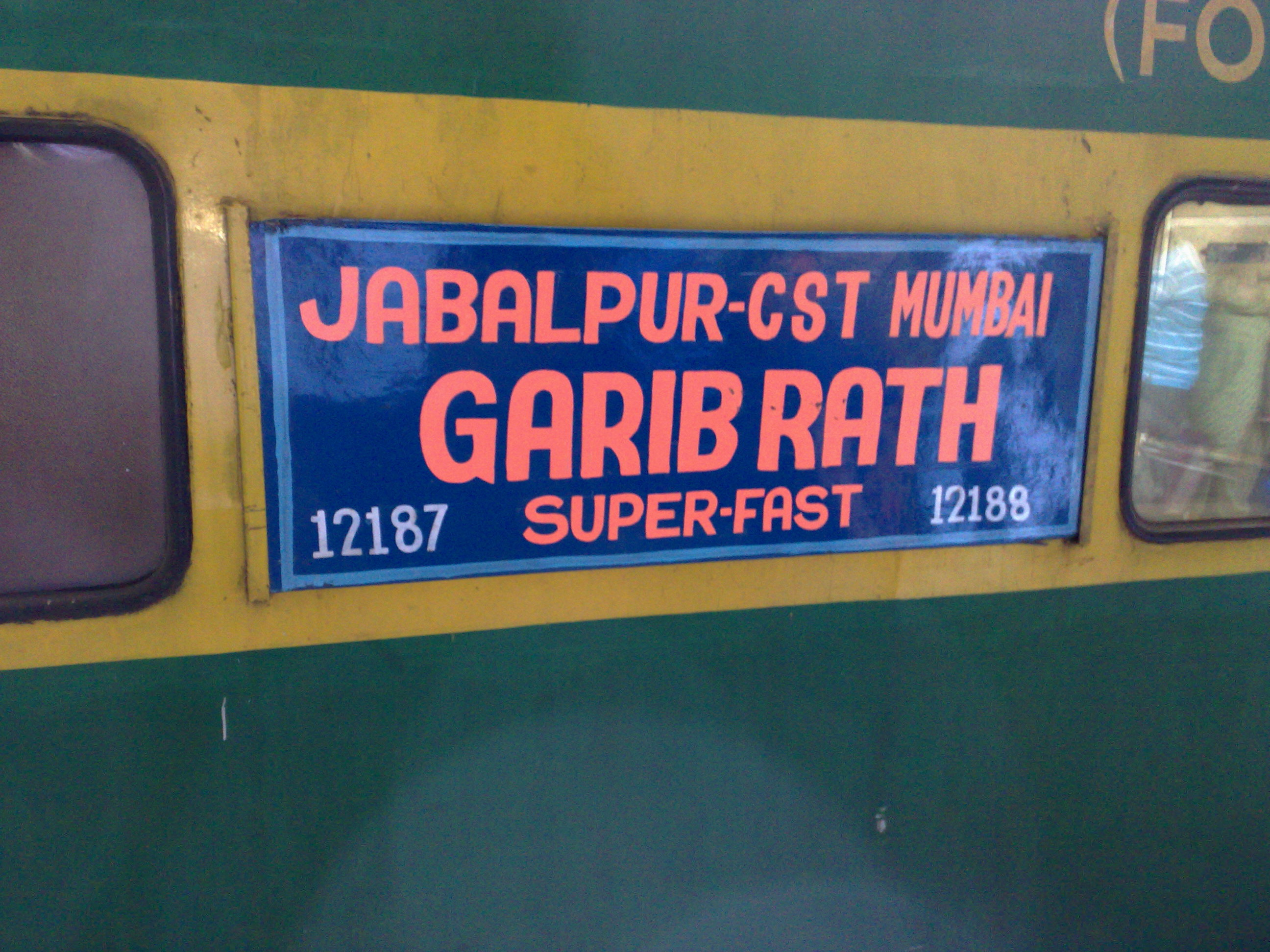 12187 Garib Rath Express trainboard